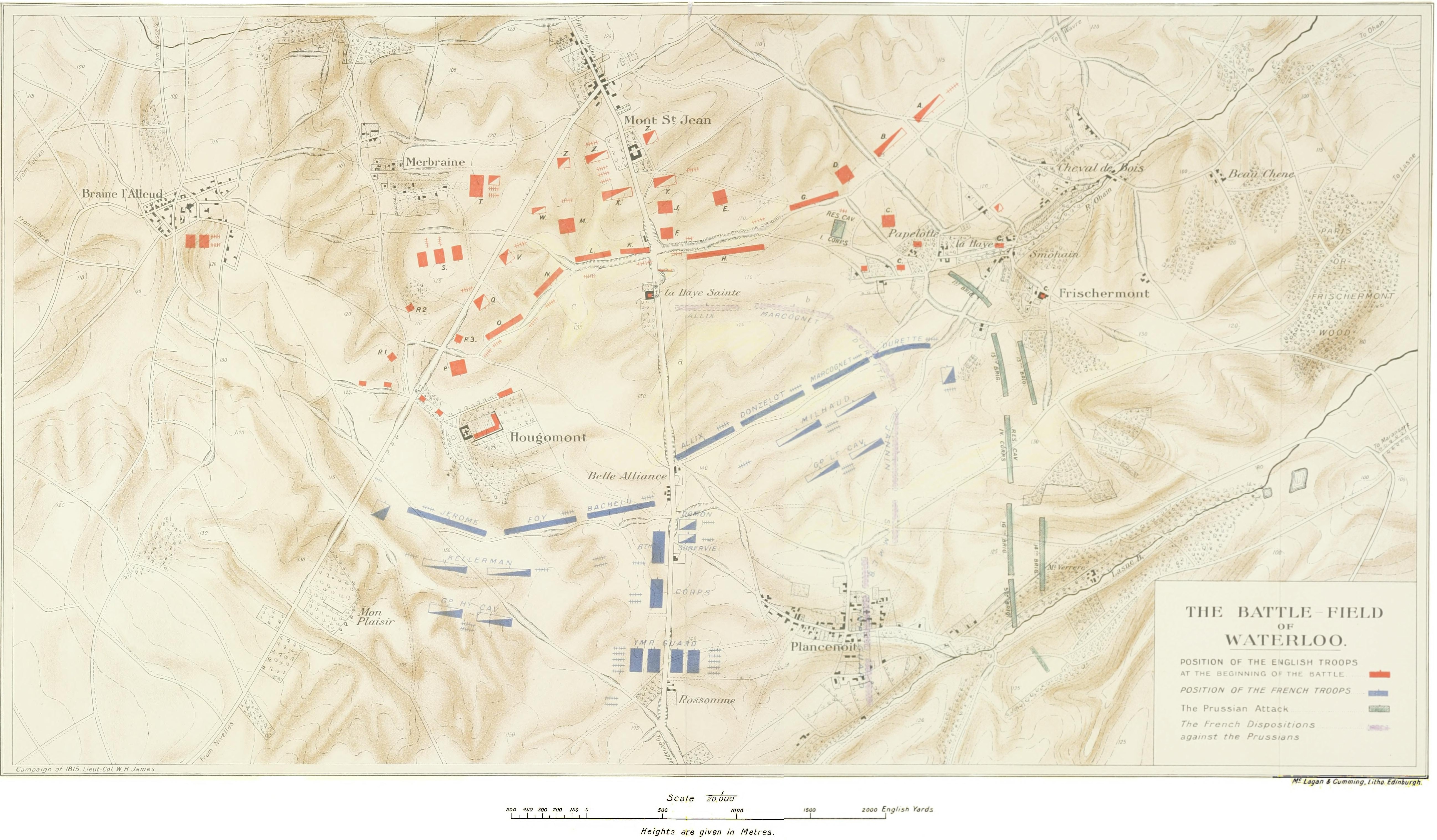 Plan of the Battle Field of Waterloo, facing page 300